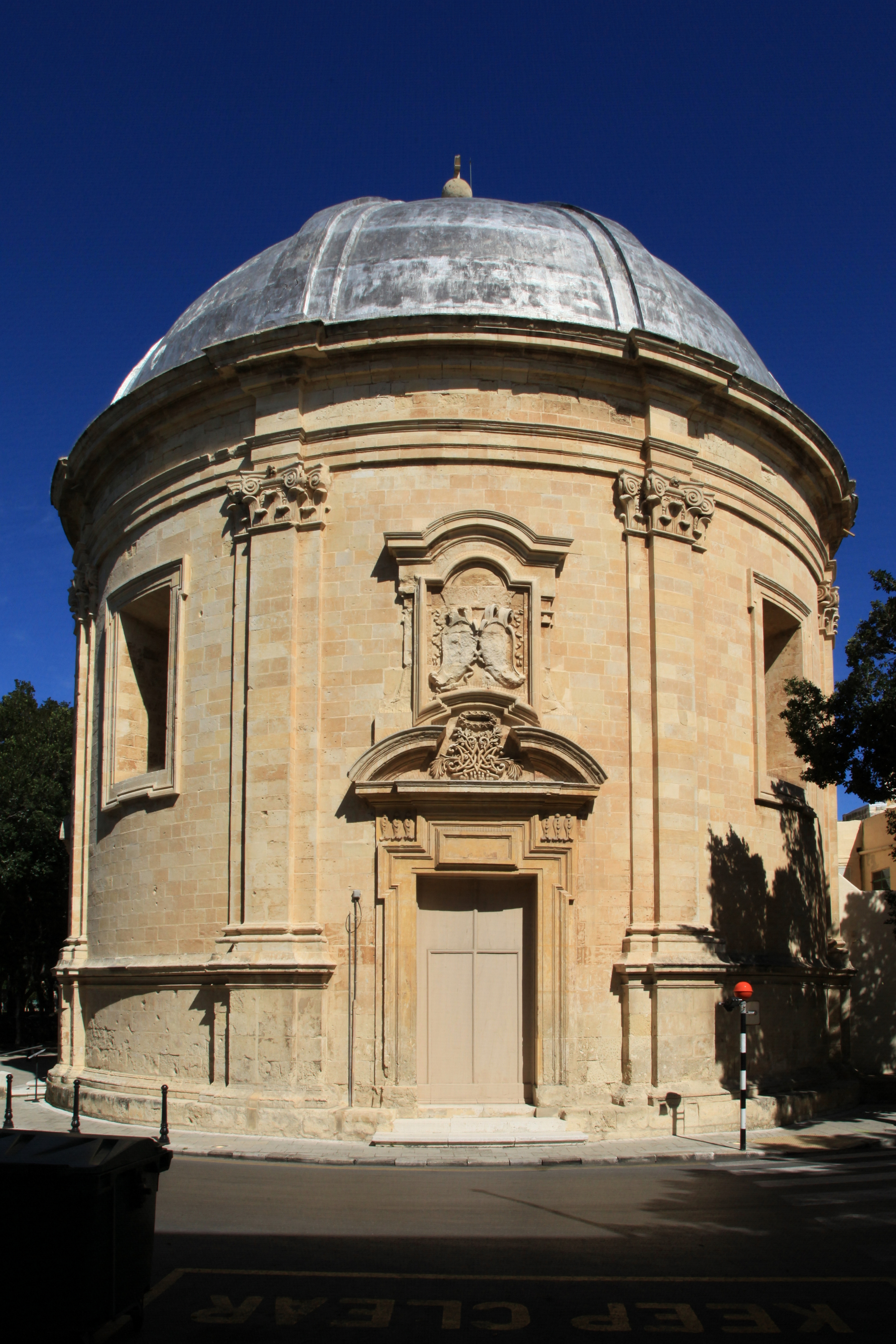 Sarria Church, Triq Sarria in Floriana, Malta